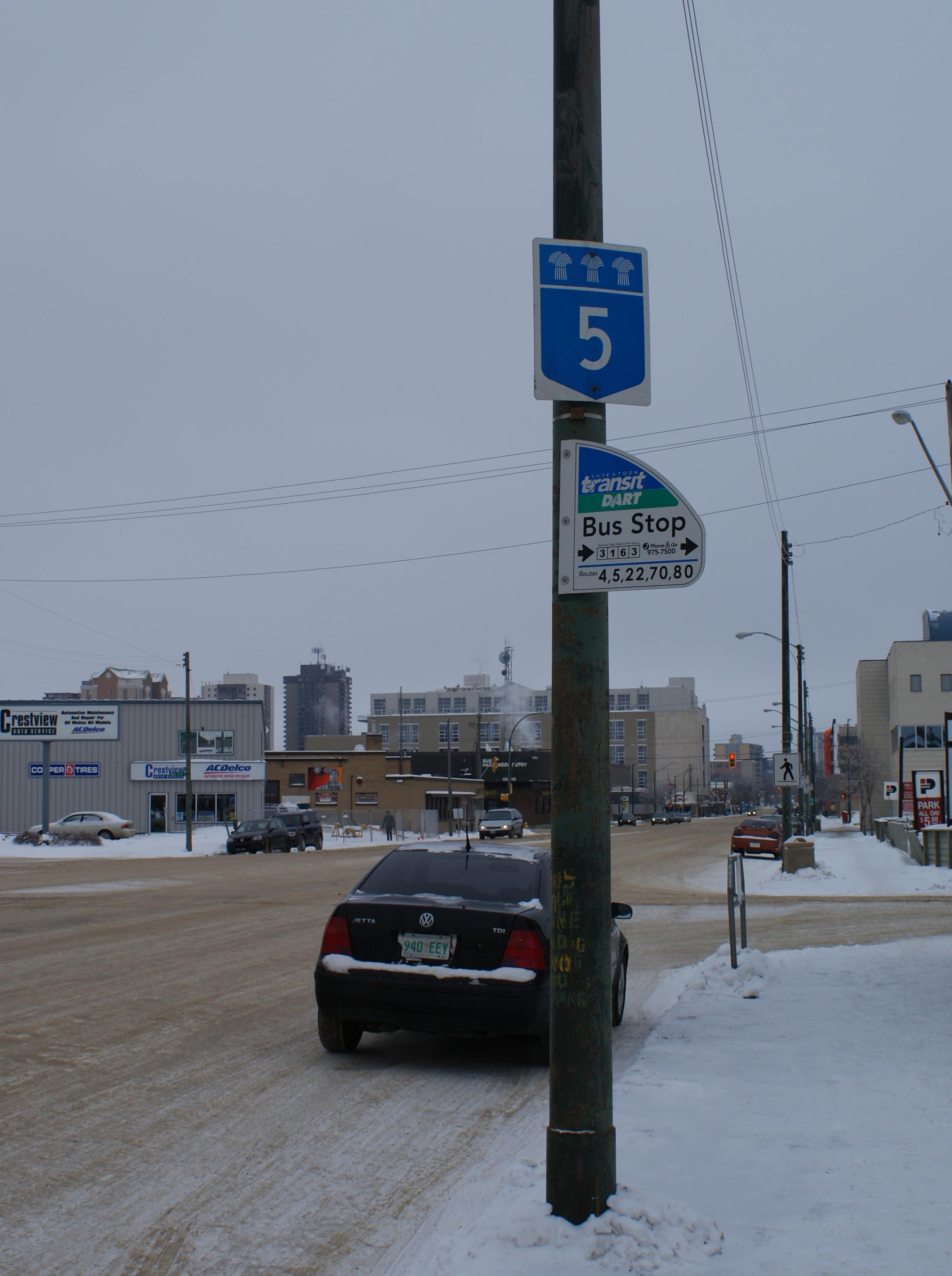 Sk Hwy 5 begins at 23rd Sereet East and Idylwlyd Avenue in Saskatoon